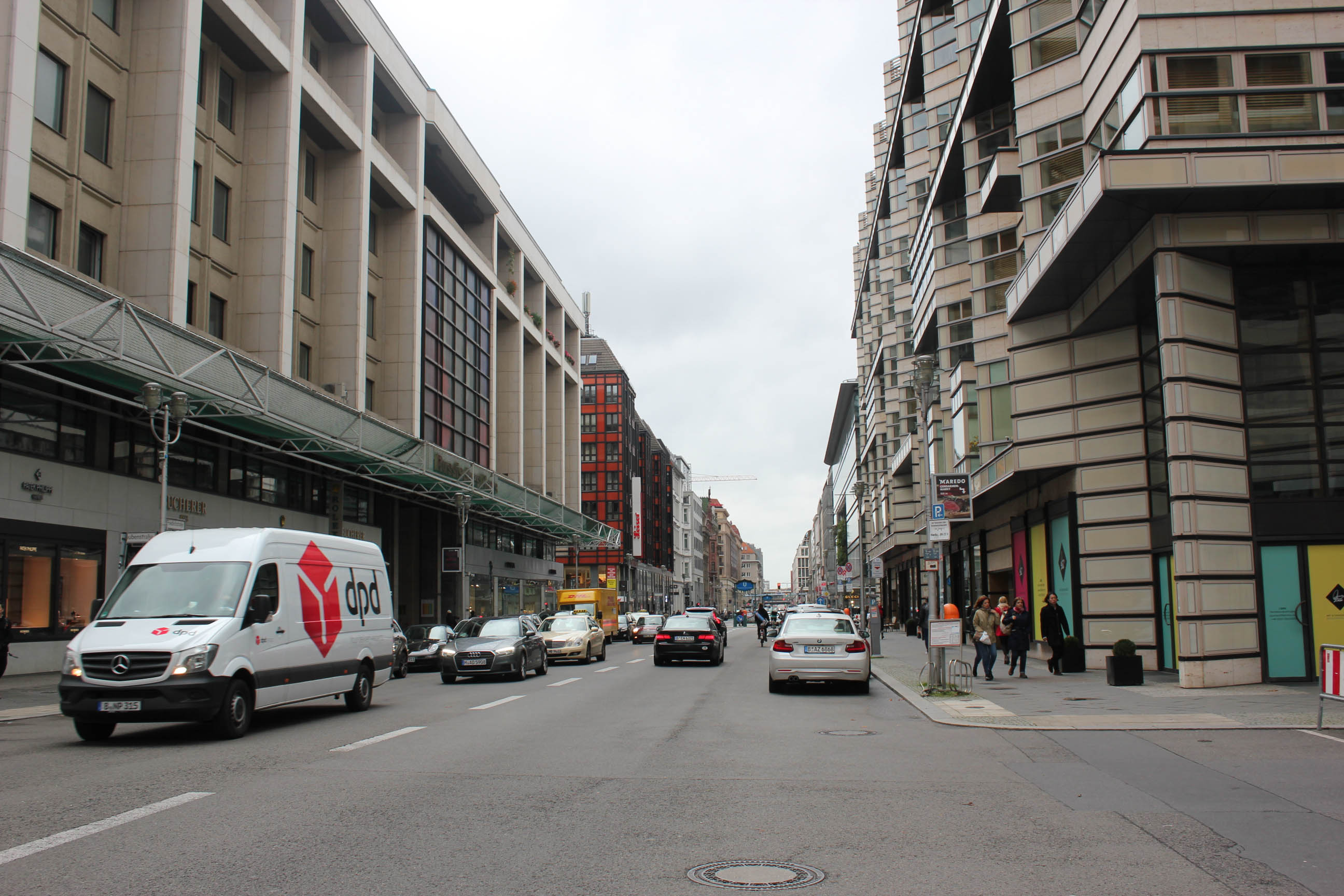 Aufsicht auf die Friedrichstraße